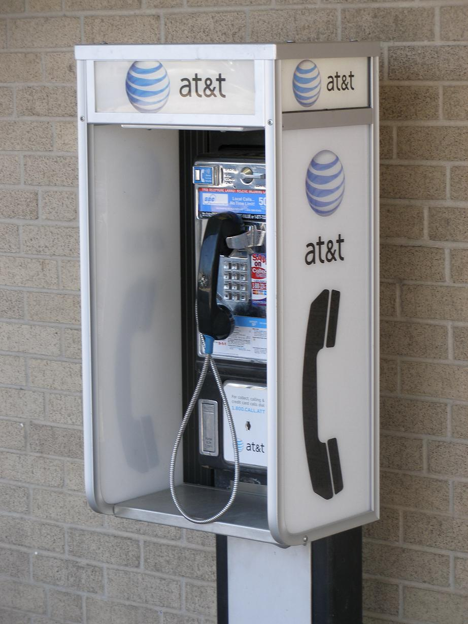 Payphone outside the AT&T offices in San Antonio, Texas. Photo taken 17 Aug 2006, only months after the mega-merger between AT&T and SBC. Note that the top instruction card still reads "SBC Southwestern Bell", and the coin return door reads "Bell System made by Western Electric".